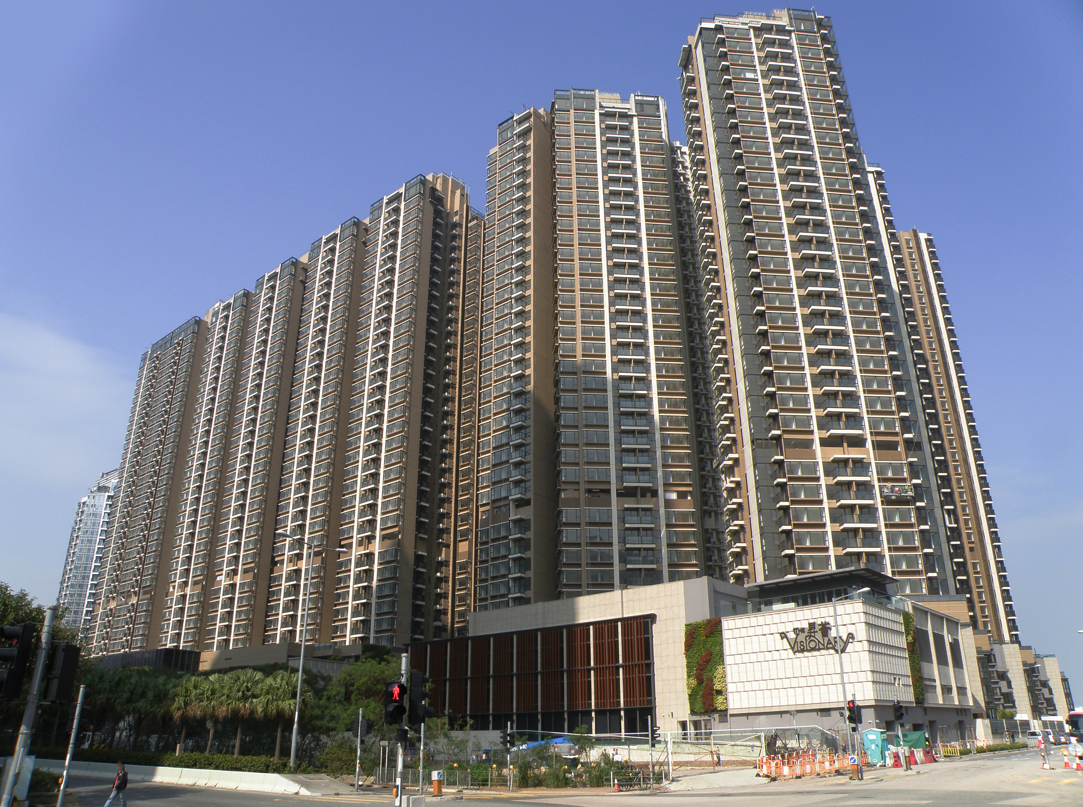 The Visionary in Tung Chung, Hong Kong.